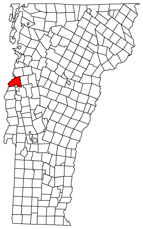 Description: Map of Vermont towns with Ferrisburg highlighted Source: Map created by Jared C. Benedict on 26 March 2004. Copyright: © Jared C. Benedict.